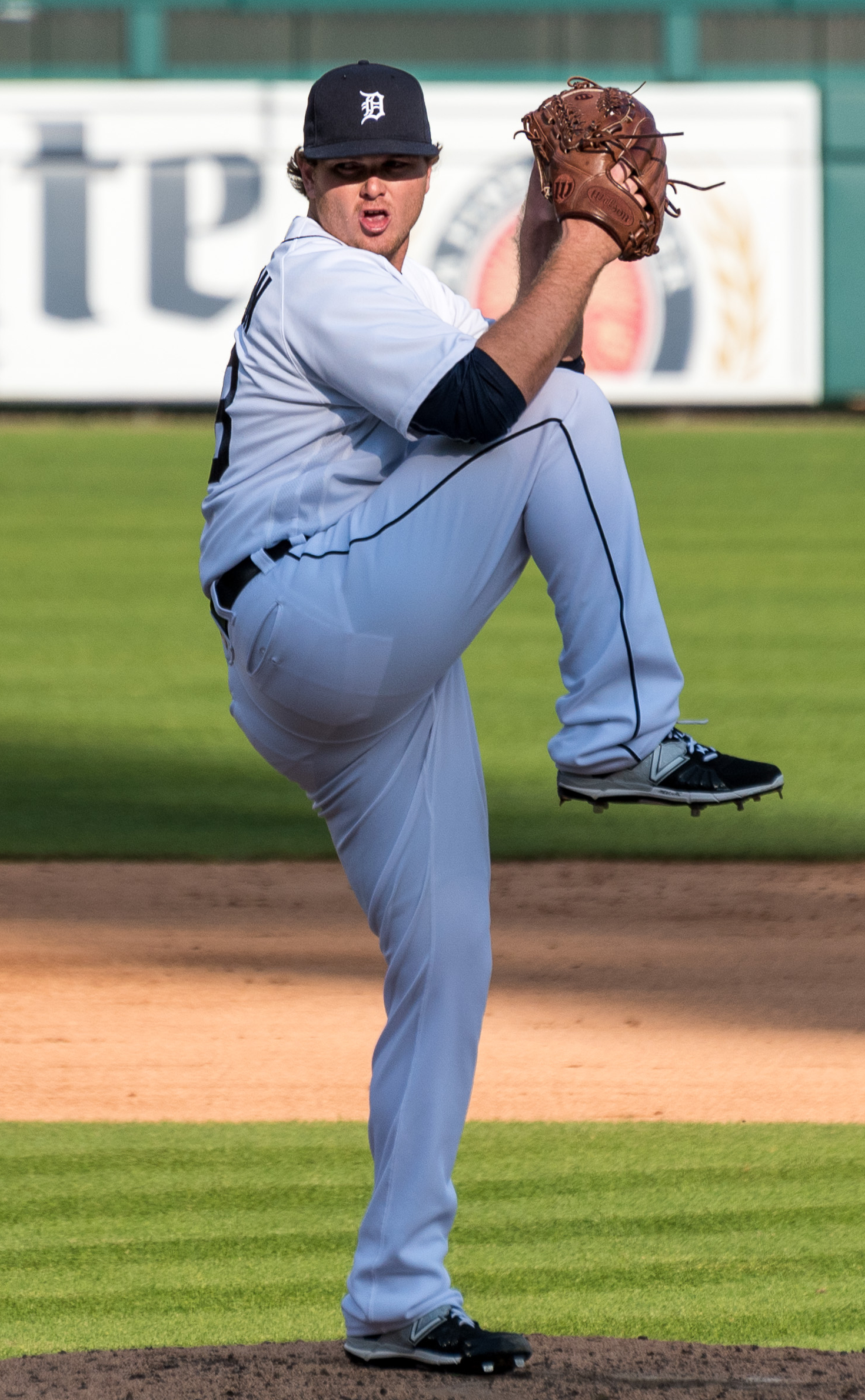 Justin Wilson